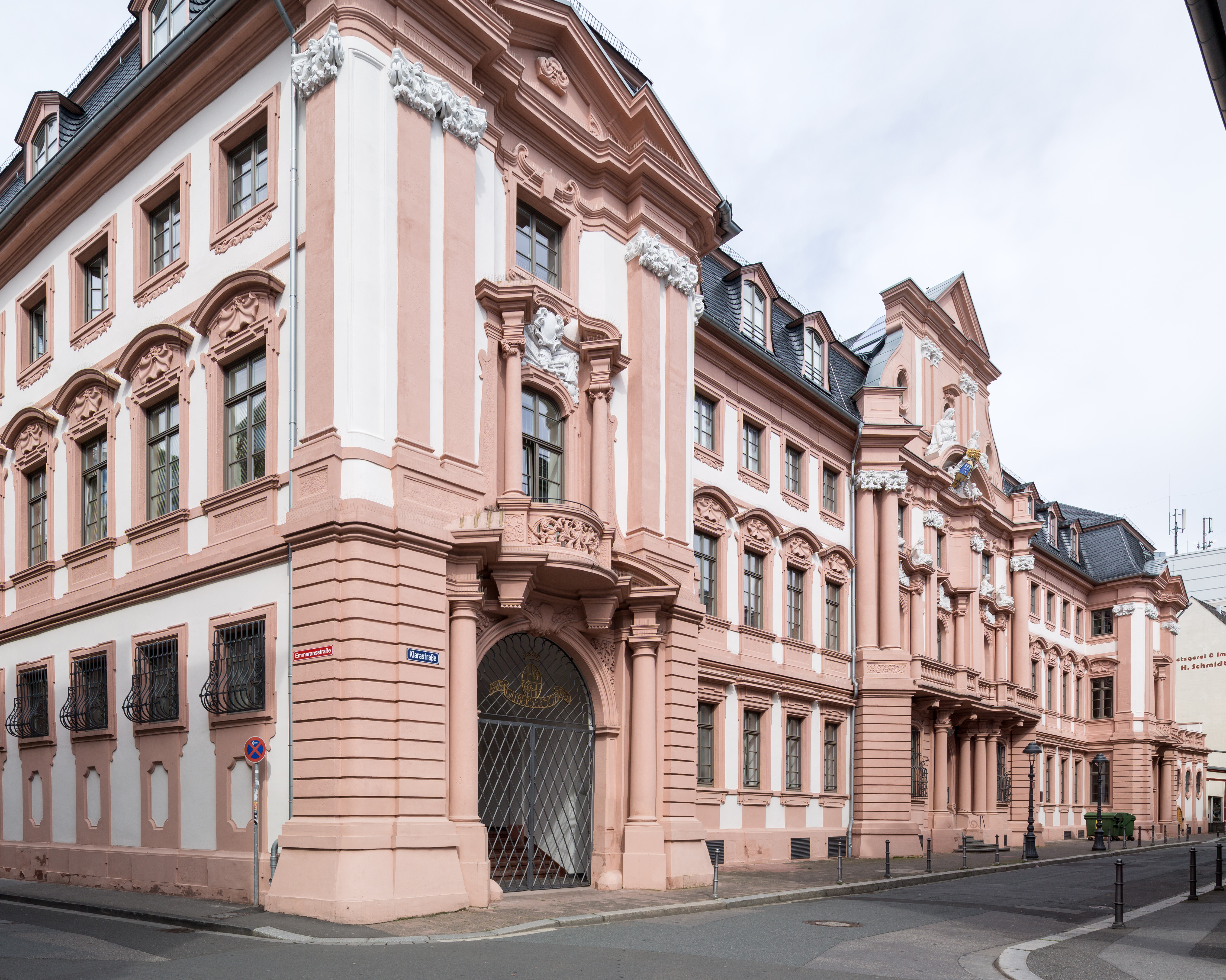 Mainz: Jüngerer Dalberger Hof (Younger Dalberg Court) as seen from the southwest